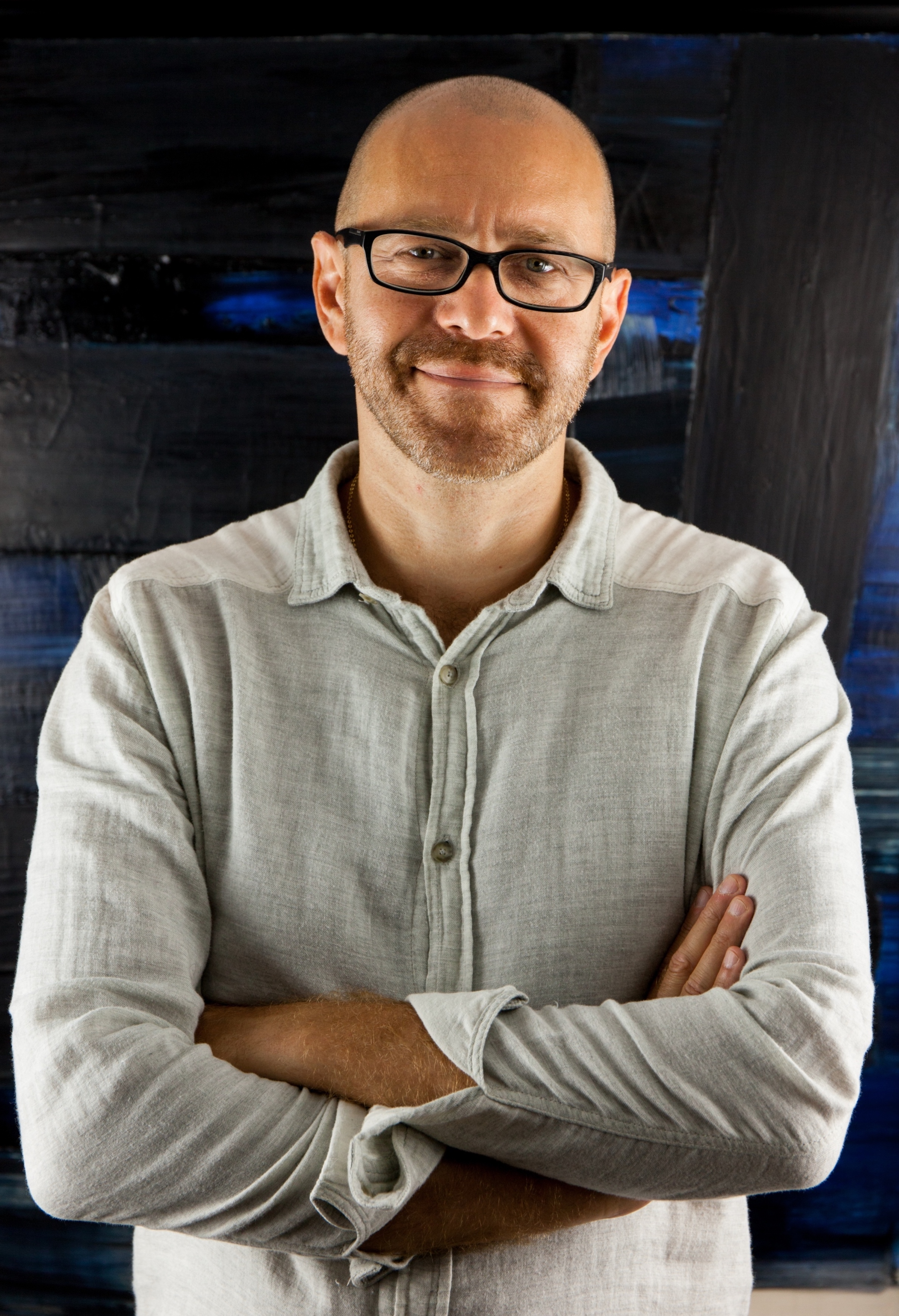 FP